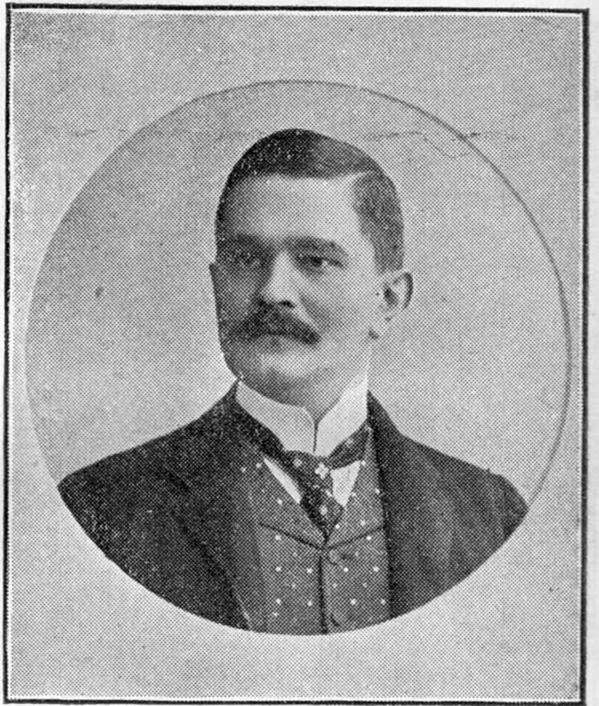 Károly Hudovernig